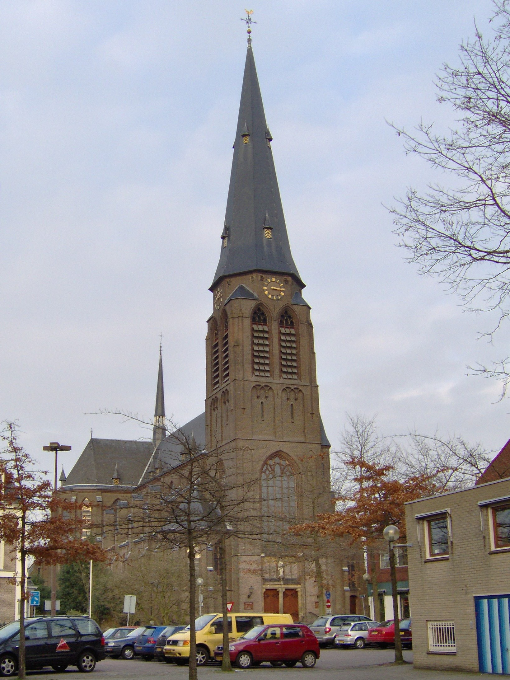 The roman catholic church Sint Georgiuskerk in Almelo in the province of Overijssel, The Netherlands